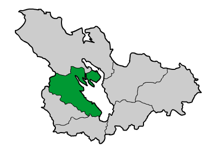 Petrozavodsk Uezd on the map of Olonets governorate